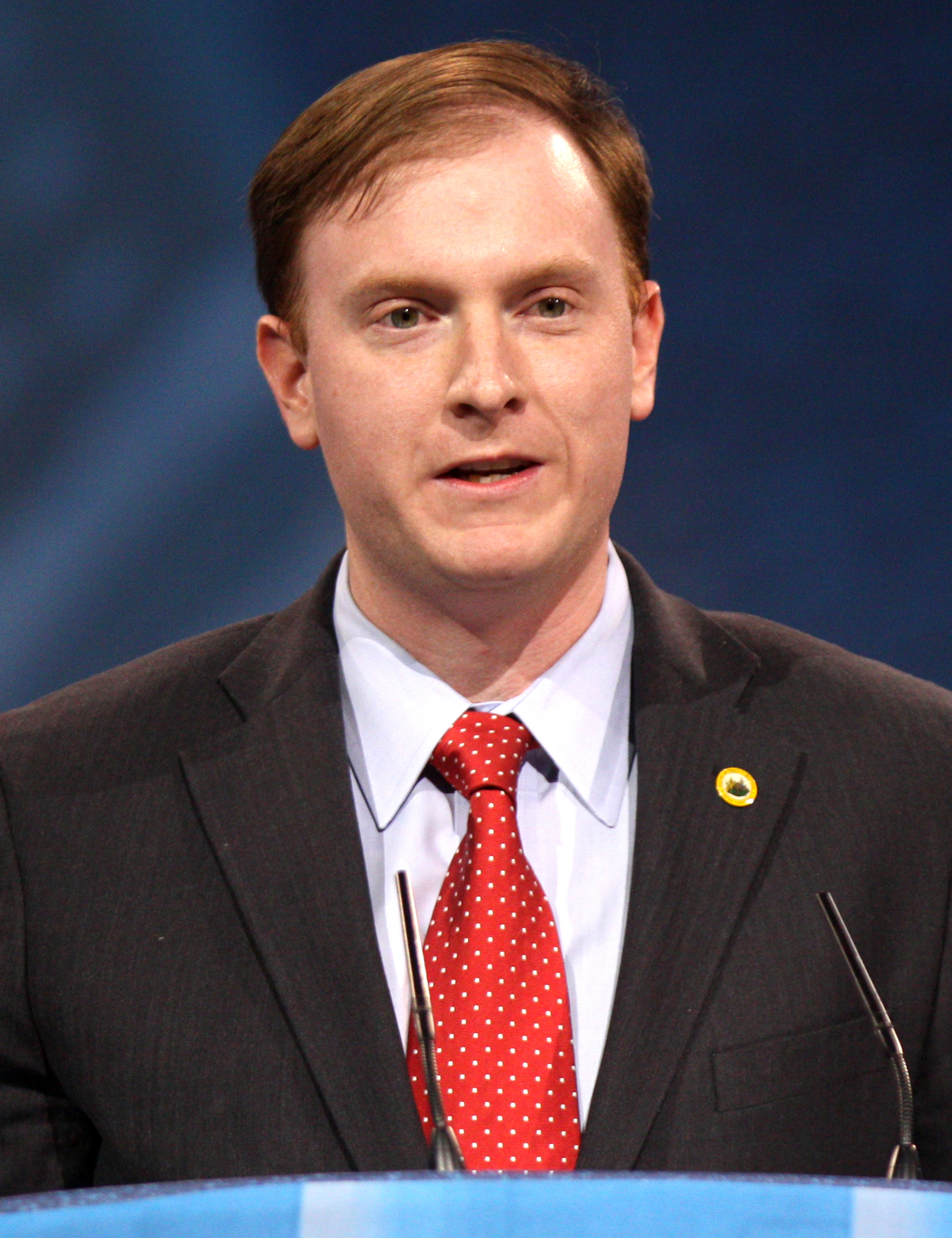 John McCuskey speaking at the 2013 CPAC in Washington, D.C.